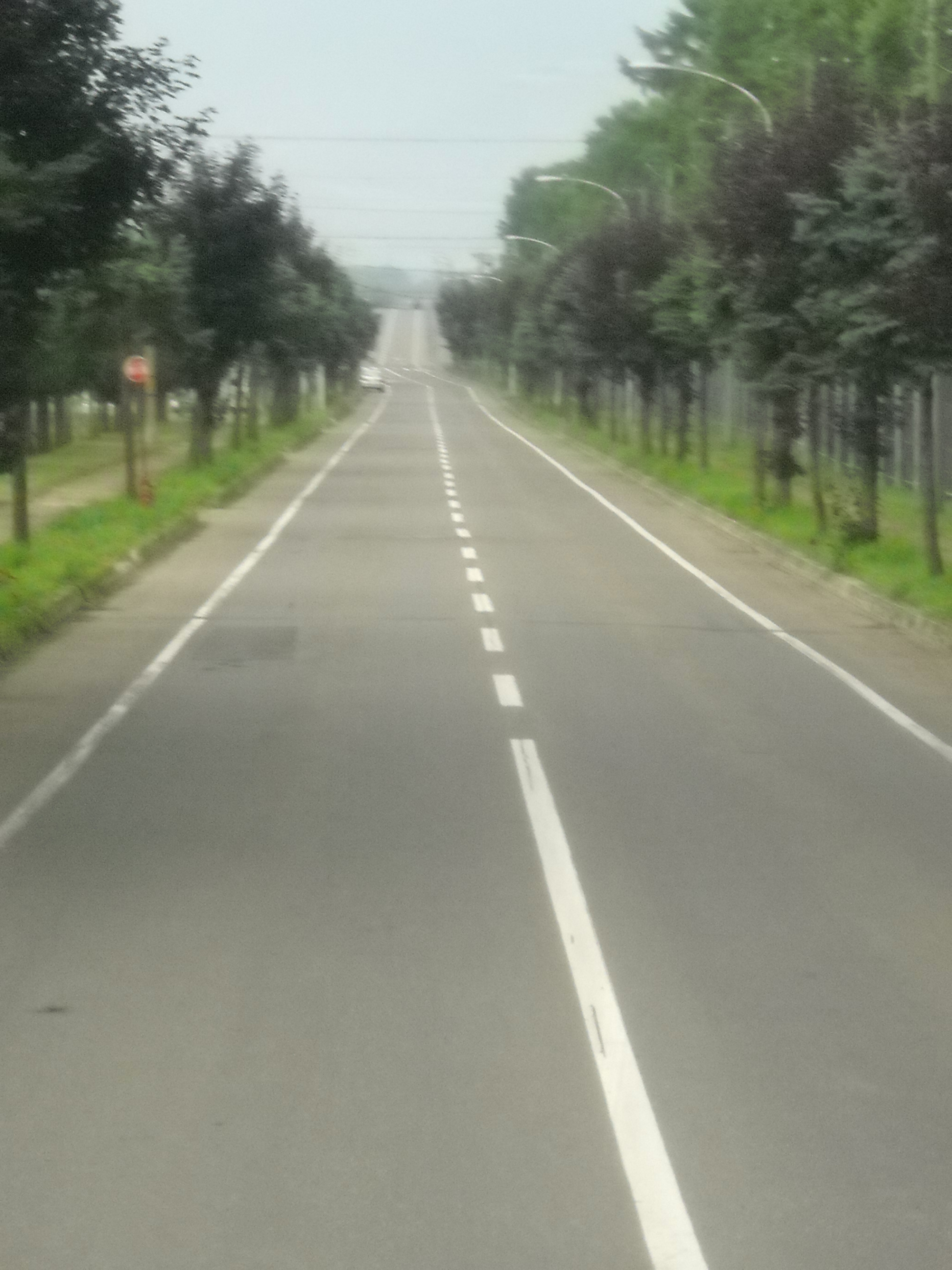 Hokkaido prefectural road route973, Shimizu town, Hokkaido, Japan